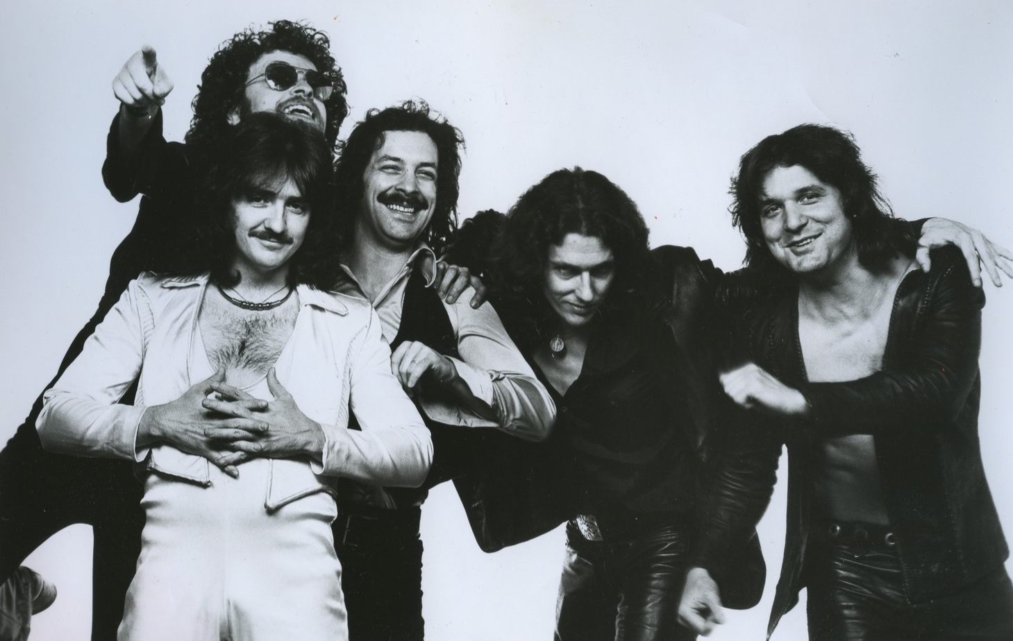 Publicity photo of the band Blue Öyster Cult issued by Columbia Records in 1977 of the lineup that lasted from 1971 to 1981. Left to right: Donald "Buck Dharma" Roeser (white shirt); behind him Eric Bloom (sunglasses); Albert Bouchard; Allen Lanier; Joe Bouchard